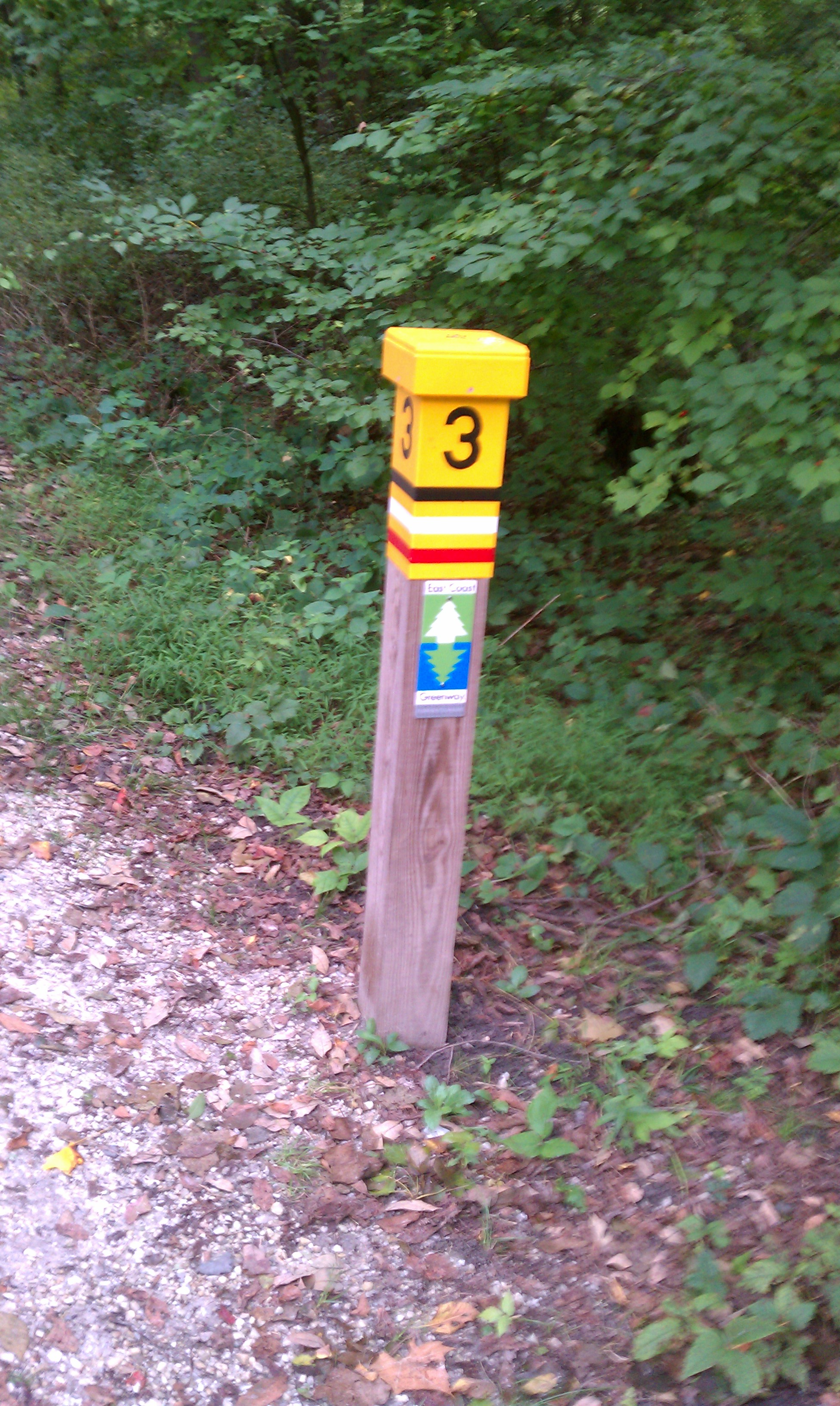 A view of one of the mileposts on the Northern Central Railway Trail, Maryland.